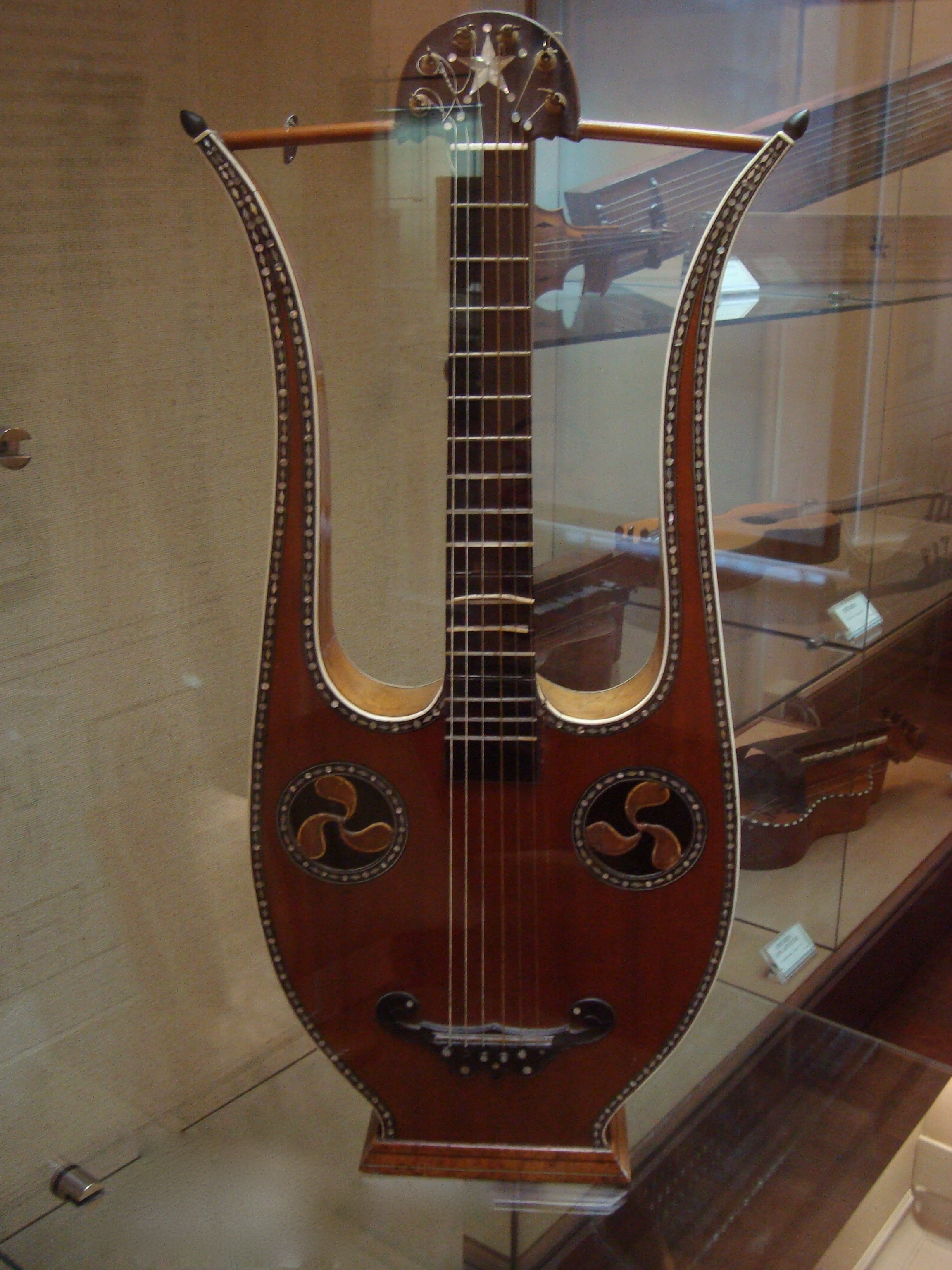 Lyre-Guitare de Charotte le jeune, 1834, Museo Nazionale degli Strumenti Musicali di Roma